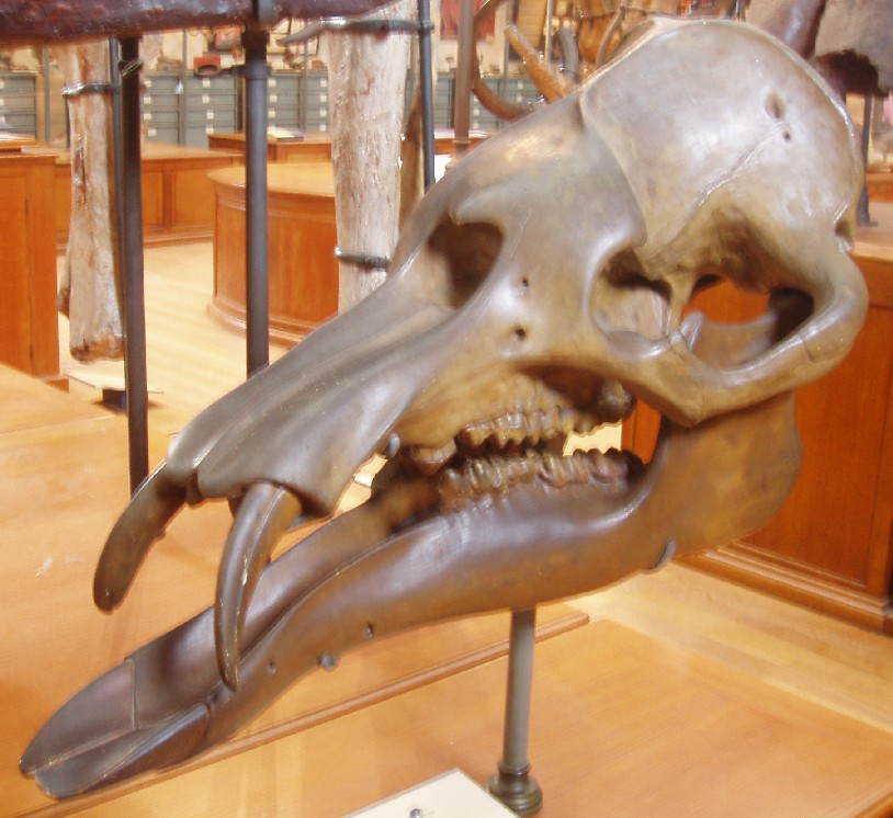 Skull of Phiomia, an early proboscidean